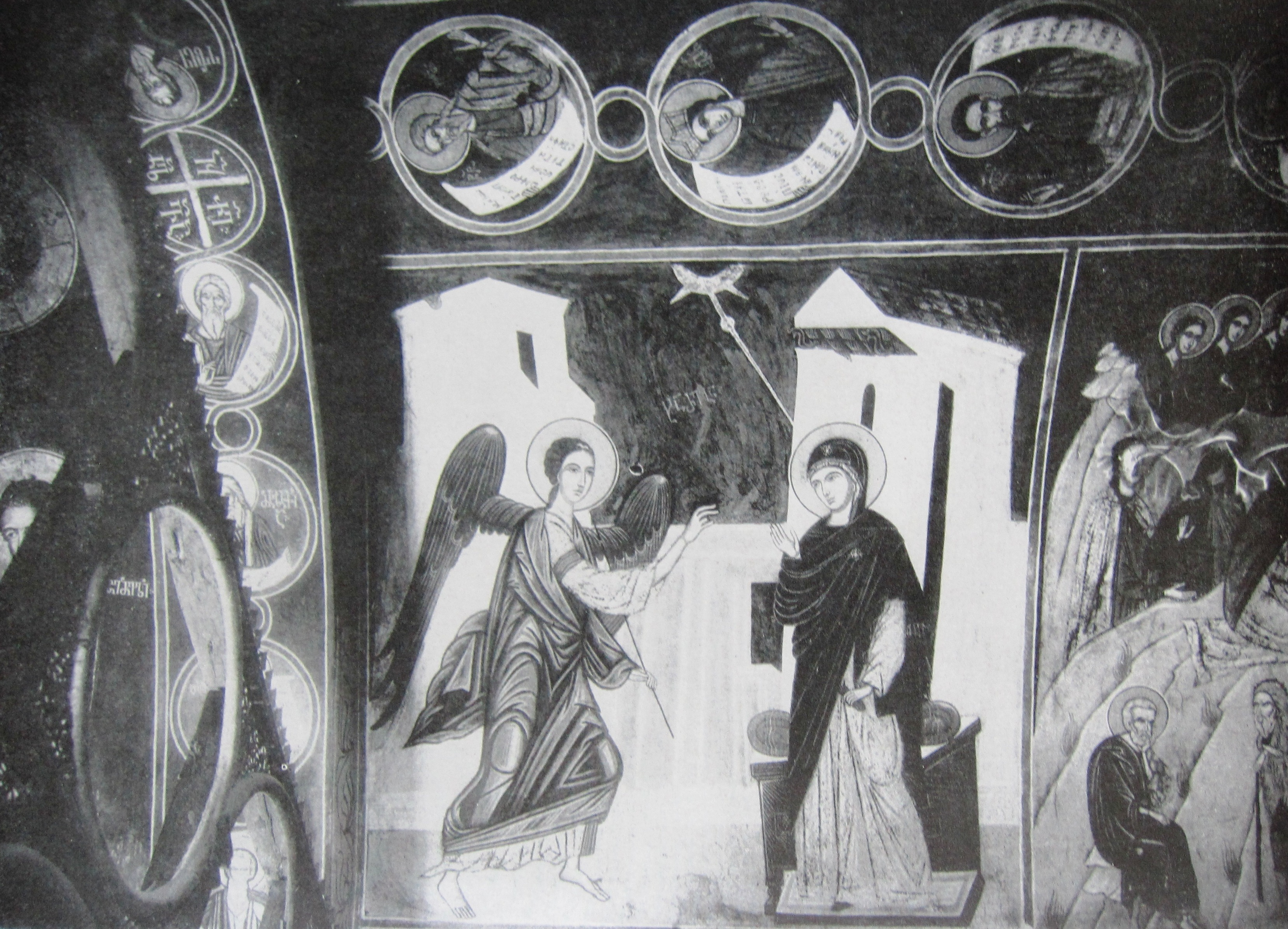 The Annunciation. A fresco from the Gelati monastery